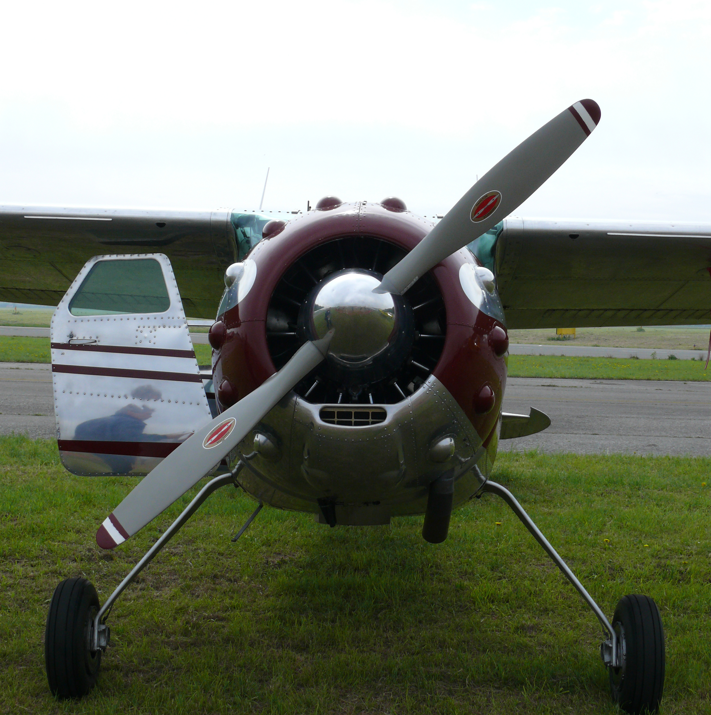 The Cessna 195 is a light single radial engine powered, conventional landing gear equipped, general aviation aircraft manufactured by Cessna between 1947 and 1954. The 195B is powered by a Jacobs R-755B2 engine of 275 hp (206 kW) and first certified on 31 March 1952. It featured flaps increased in area by 50% over earlier models.